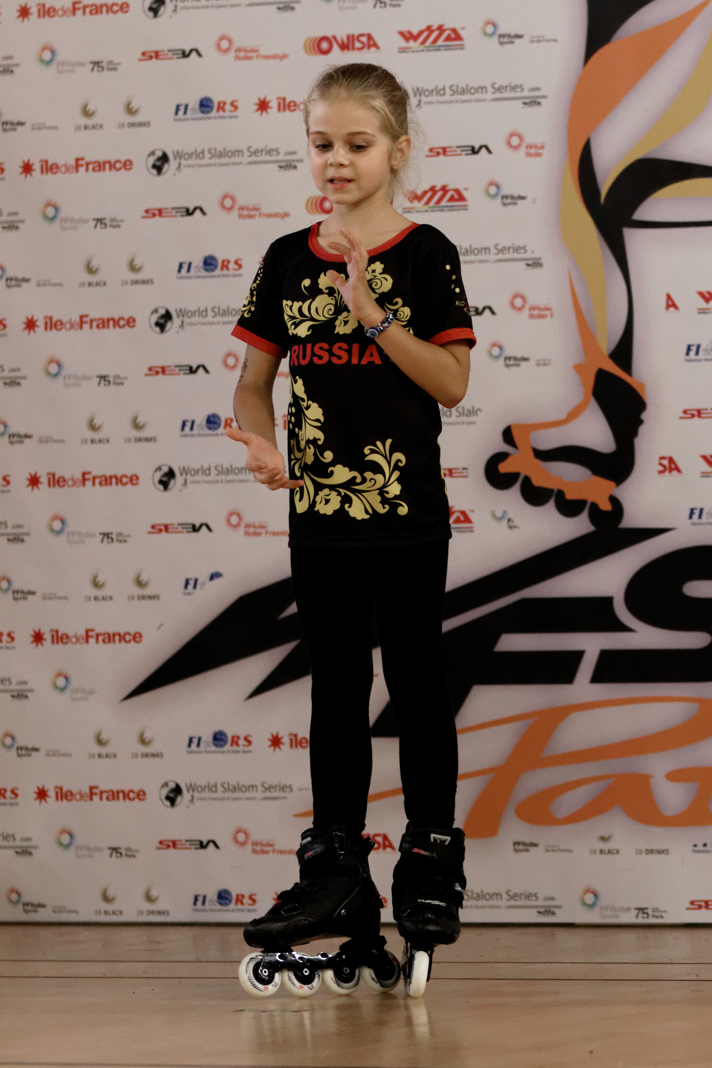 2014 World freestyle skating championships